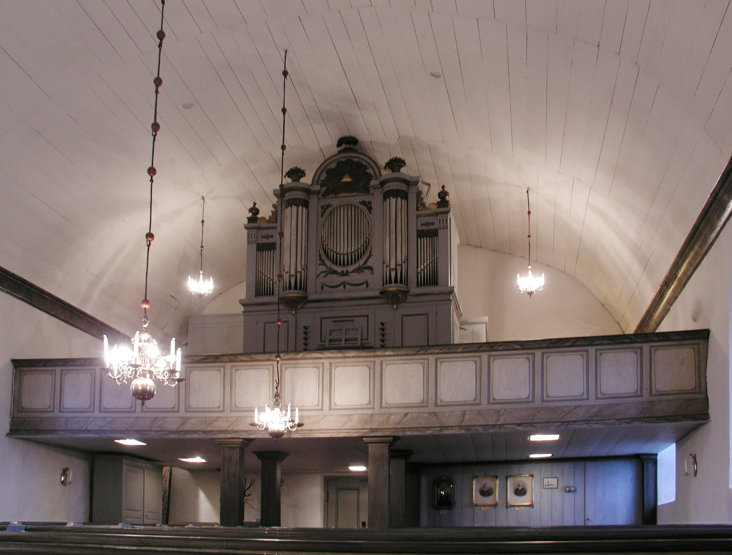 Östra Skrukebys kyrka, Diocese of Linköping, Sweden. Organ. The picture was taken the 4th of december 2005 by Håkan Svensson (Xauxa).